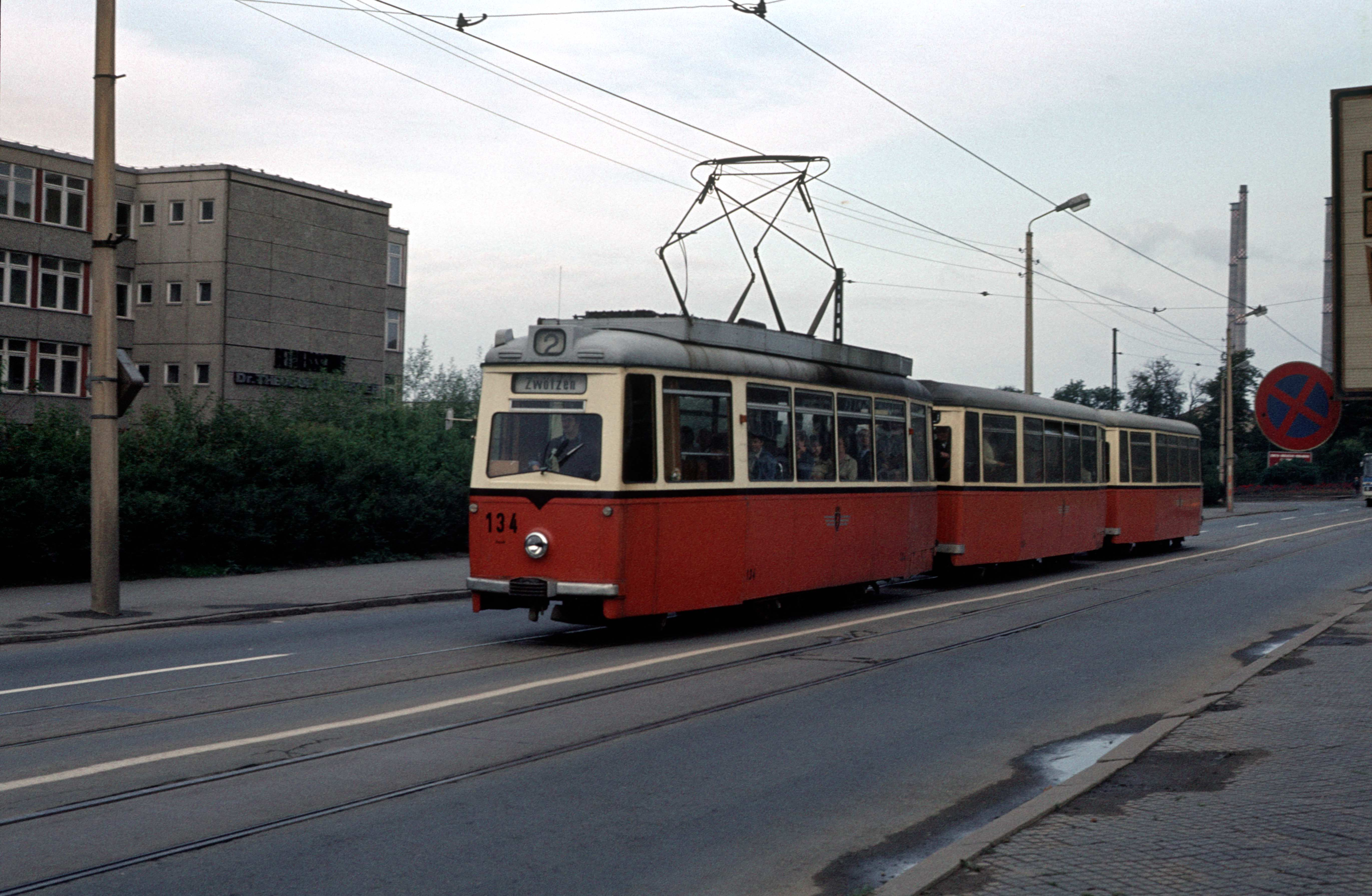 Tramway at Wilhelm-Pieck-Straße (now Berliner Straße) in Gera, East Germany, in September 1980